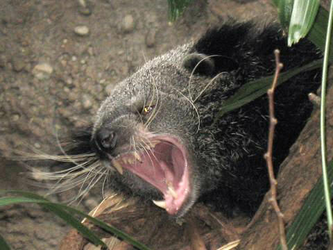 Arctictis binturong in Bronx Zoo, New York